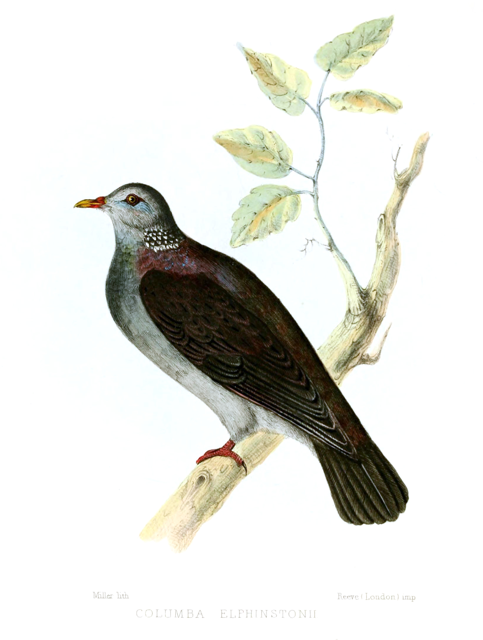 Columba elphinstonii illustration from Jerdon's Illustrations of Indian Ornithology